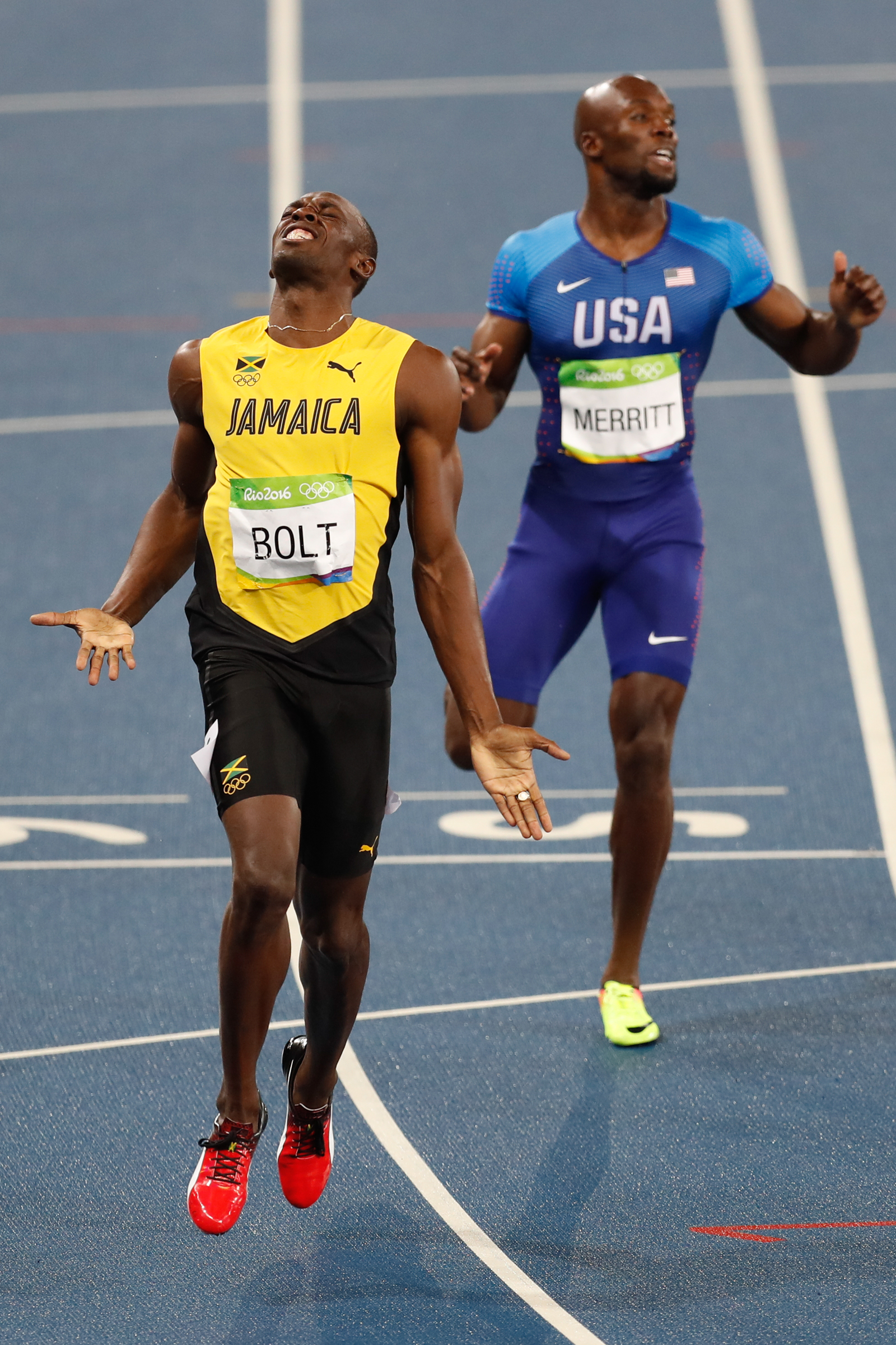 Rio de Janeiro - O Jamaicano Usain Bolt vence prova dos 200m rasos do atletismo e leva medalha de ouro nos Jogos Rio 2016, no Estádio Olímpico (Fernando Frazão/Agência Brasil)